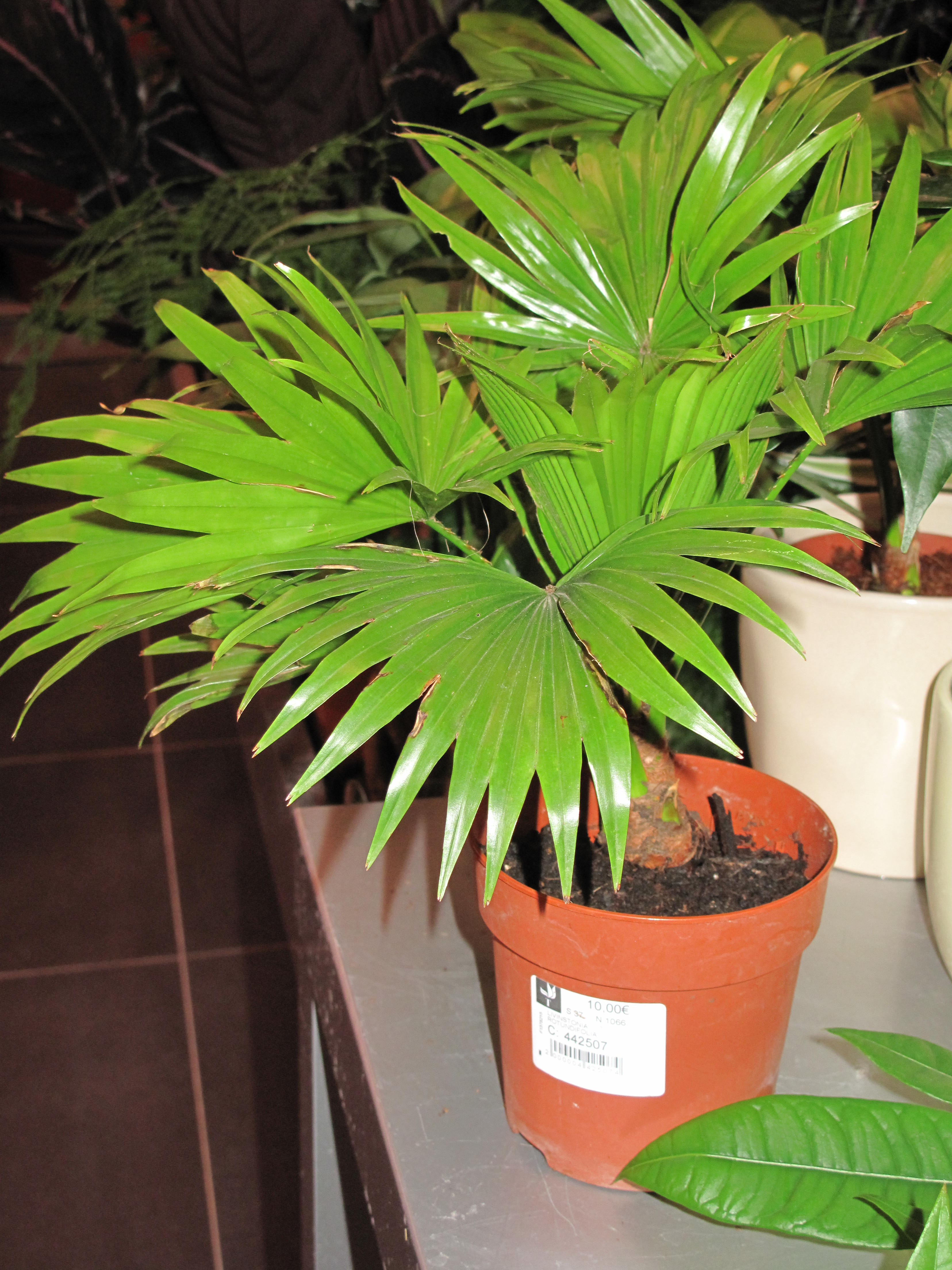 Livingstonia rotundifolia in a garden centre. Identified by its commercial botanic label.